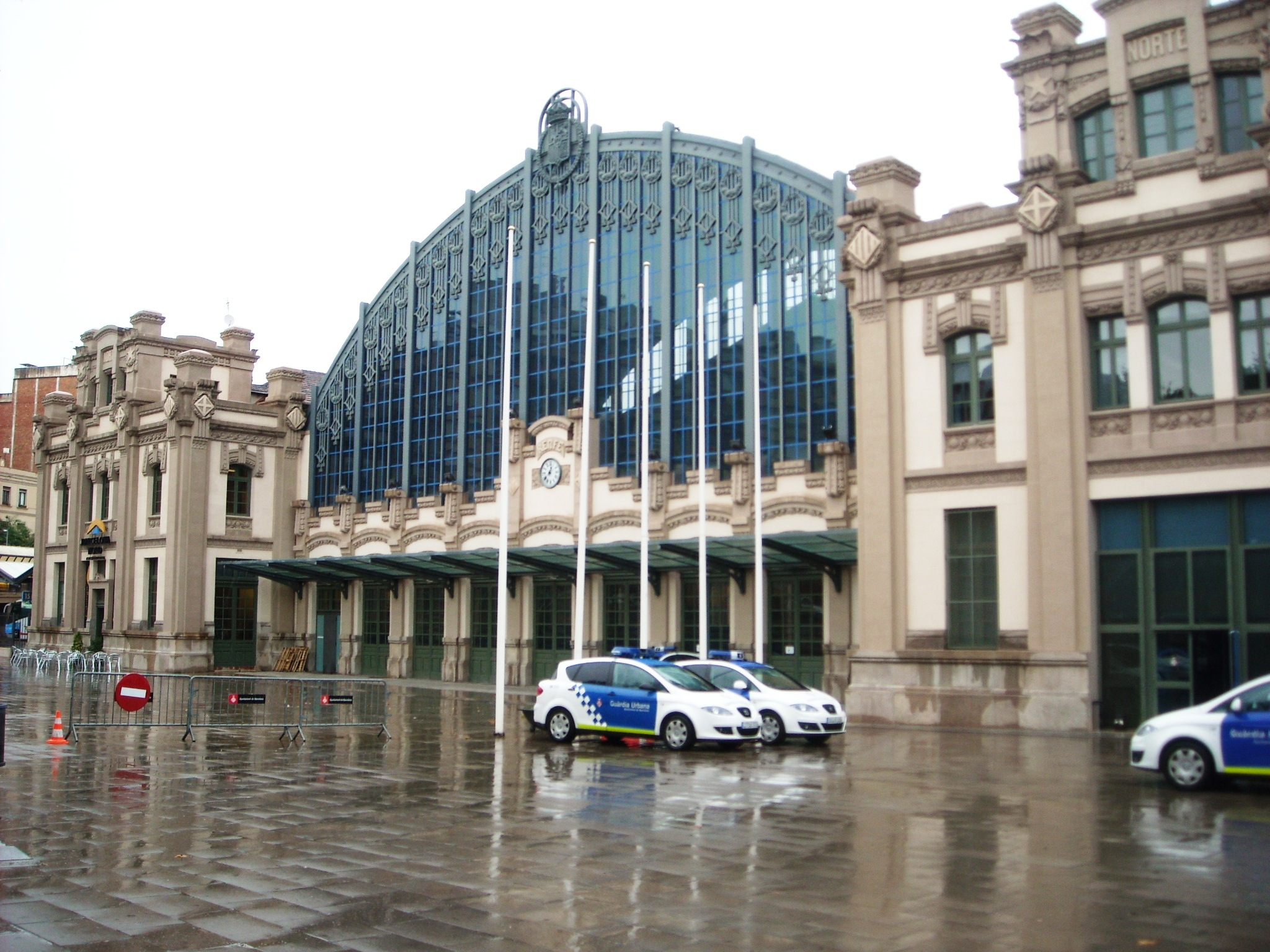 Former train station. Estació del nord. Barcelona. Catalunya